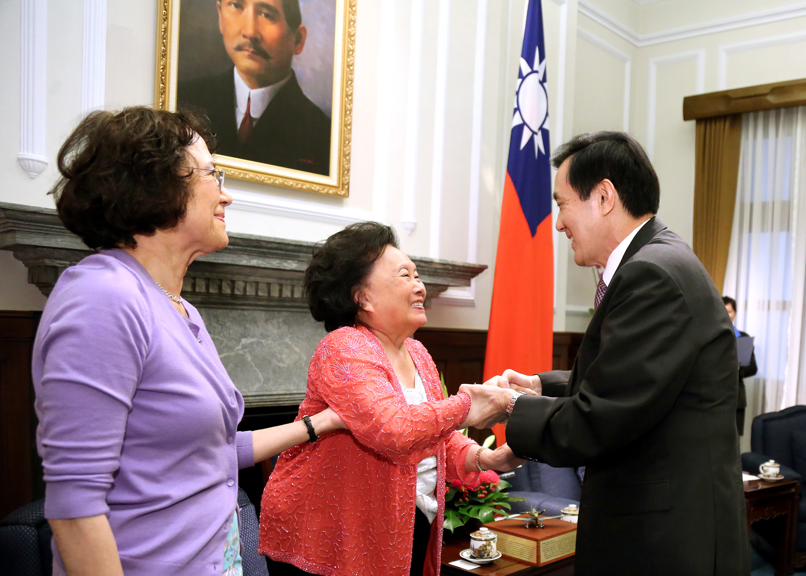 President Ma meets Anna Chennault, widow of Flying Tigers Lieutenant General Claire Lee Chennault. (2015/10/07)